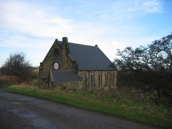 Mount Community Centre, Eighton Banks This was once a methodist chapel